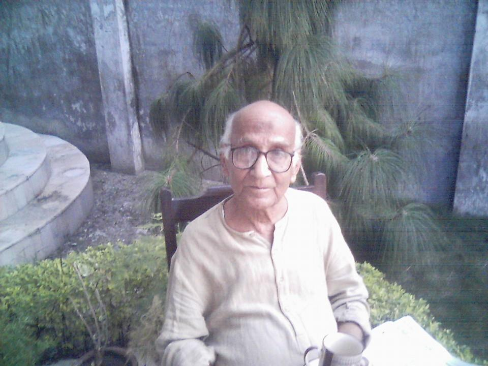 Imtiyaz Ali Khan descendant of Naubat Khan